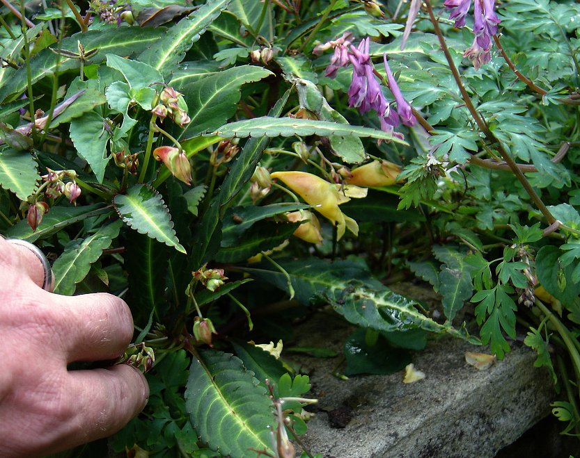 Impatiens omeiana and Corydalis 'Blackberry Wine'